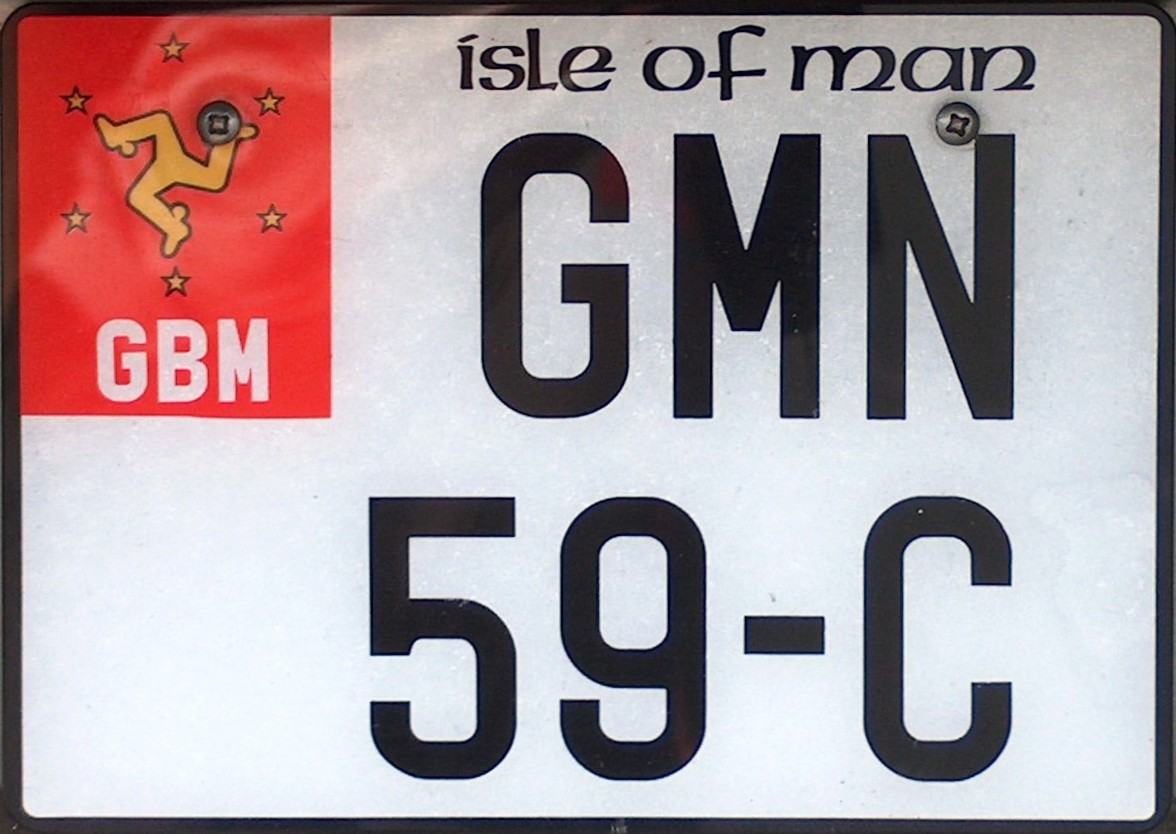 Front license plate from the Isle of Man